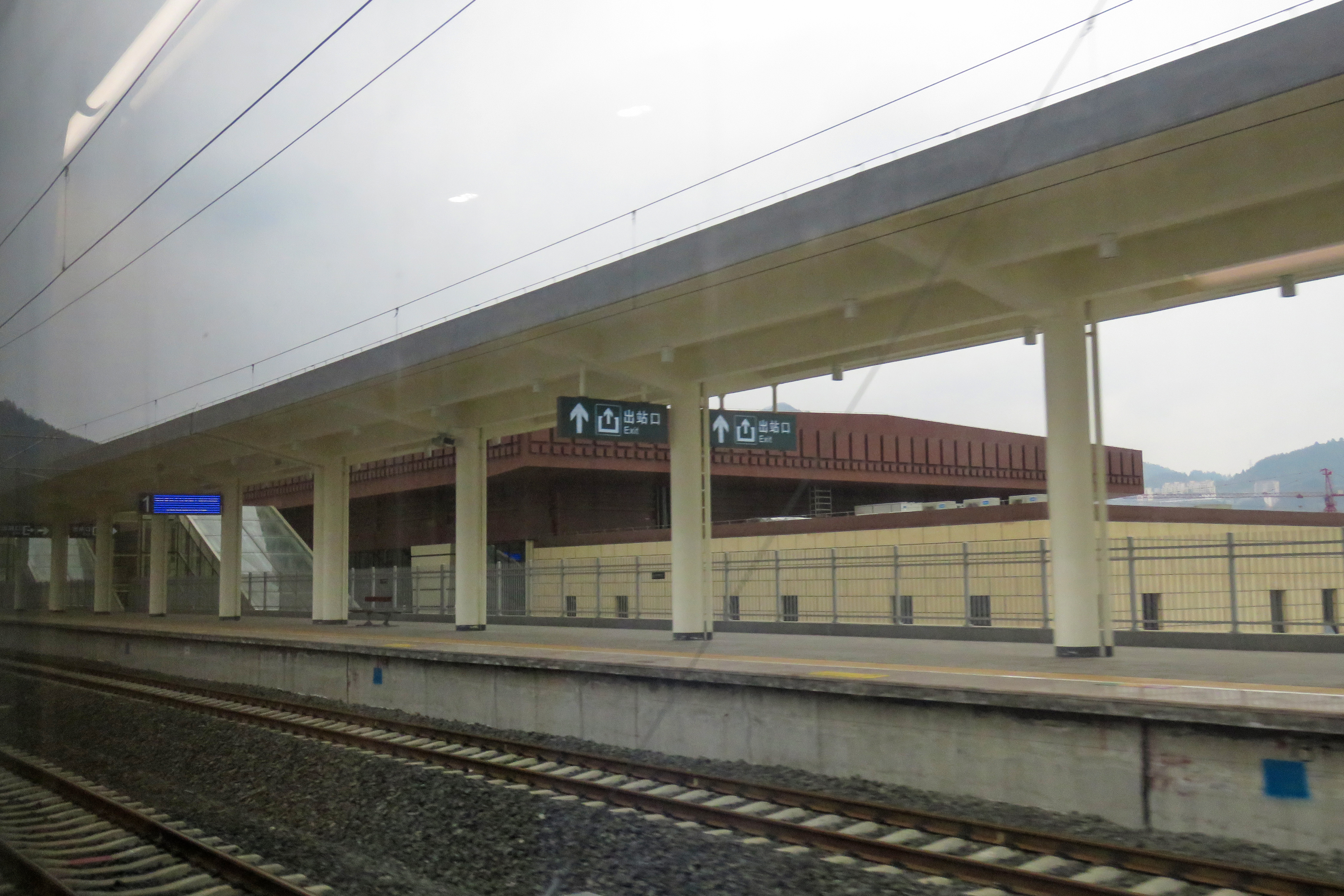 Still, the train didn't stop here.